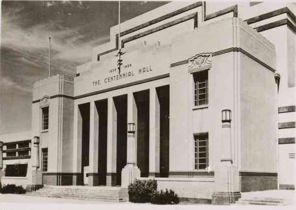 Facade of the Centennial Hall, Wayville Showgrounds during the Royal Adelaide Exhibition 1947